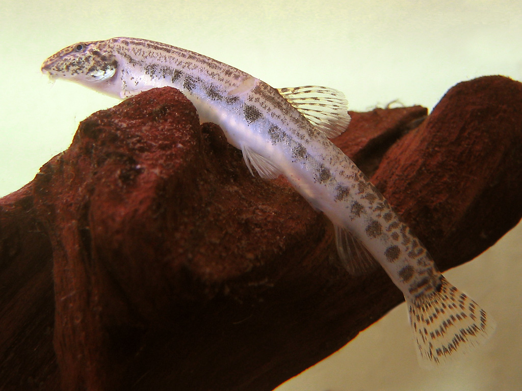 Spine loach, also called Weatherfish (Cobitis taenia)